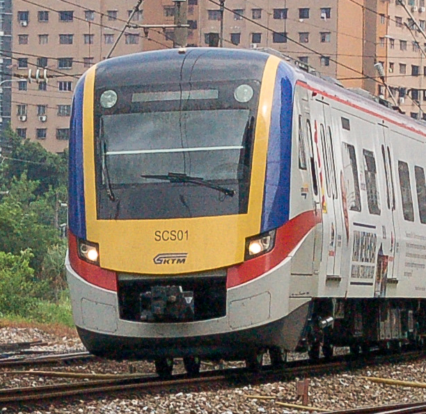 KTMB Class 92 SCS 1